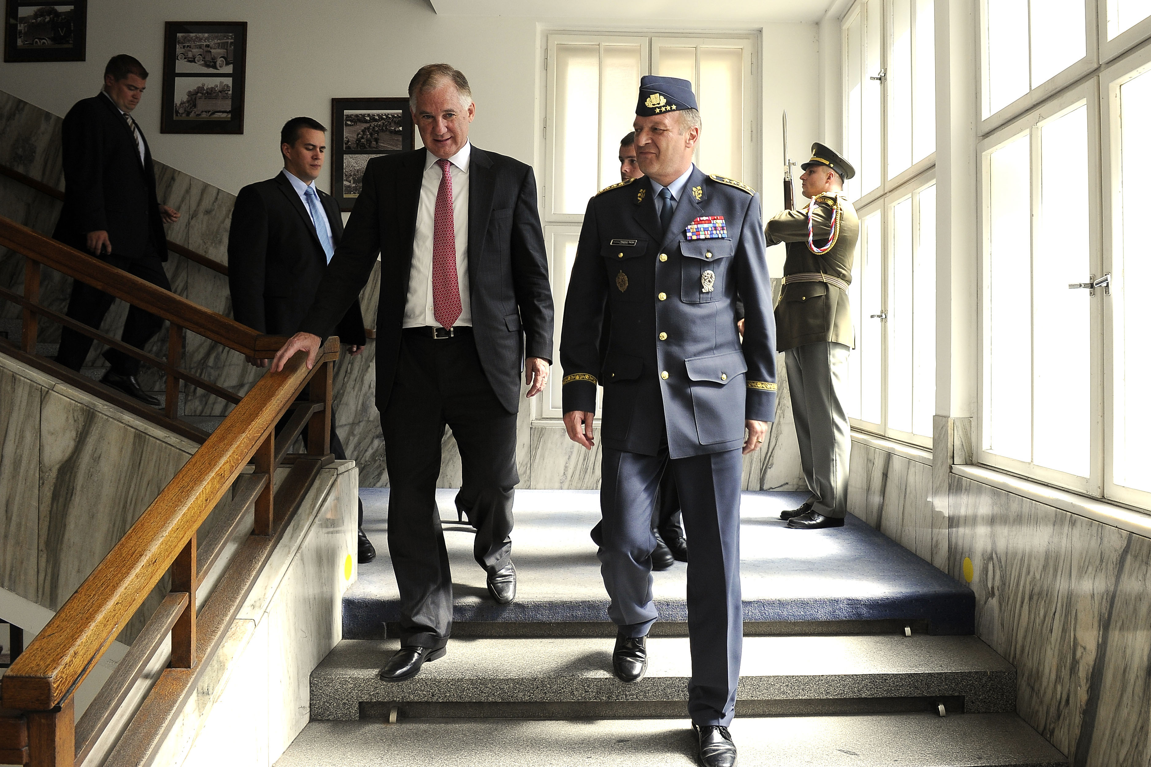 Deputy Secretary of Defense William J. Lynn is escorted to his motorcade by Czech Republic Chief of the General Staff Gen. Vlastimil Picek in Prague, Czech Republic, on June 15, 2011.